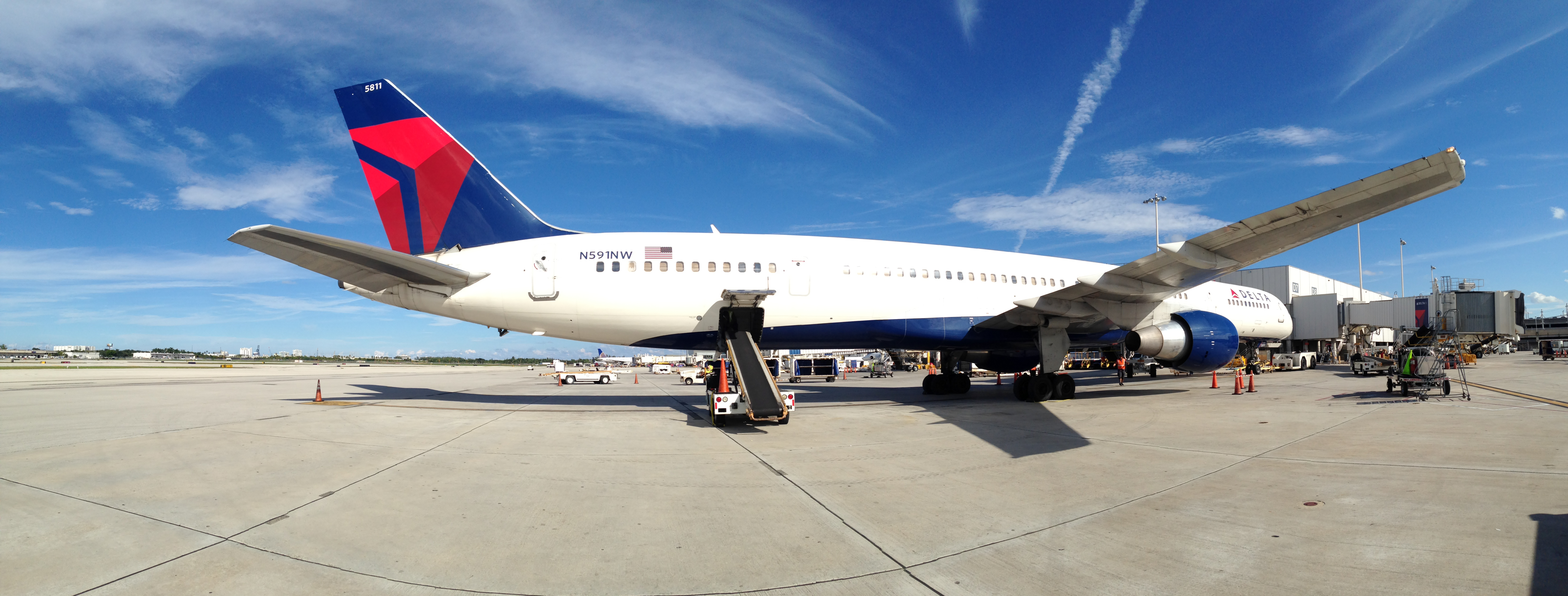 Delta Air Lines 757-300 at Terminal 2